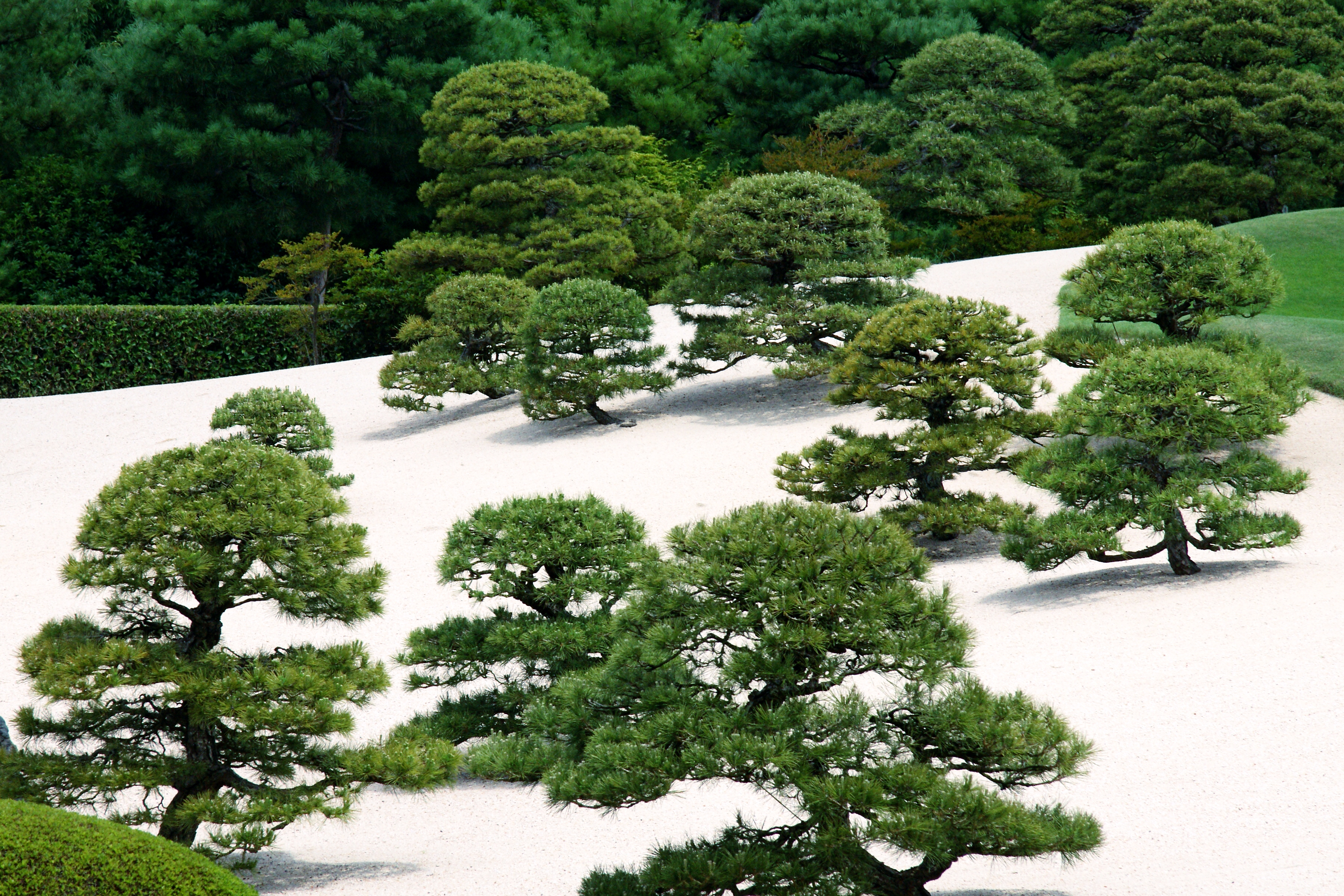 Adachi Museum of Art in Yasugi, Shimane prefecture, Japan